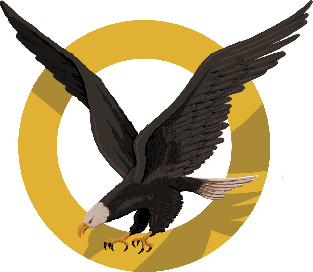 ensign of the 41º Stormo Bombardamento Terrestre (41st Terrestrial Bombing Wing) of the Regia Aeronautica (Italian Air Force).